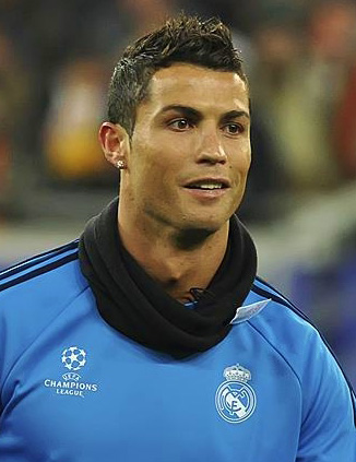 Cristiano Ronaldo